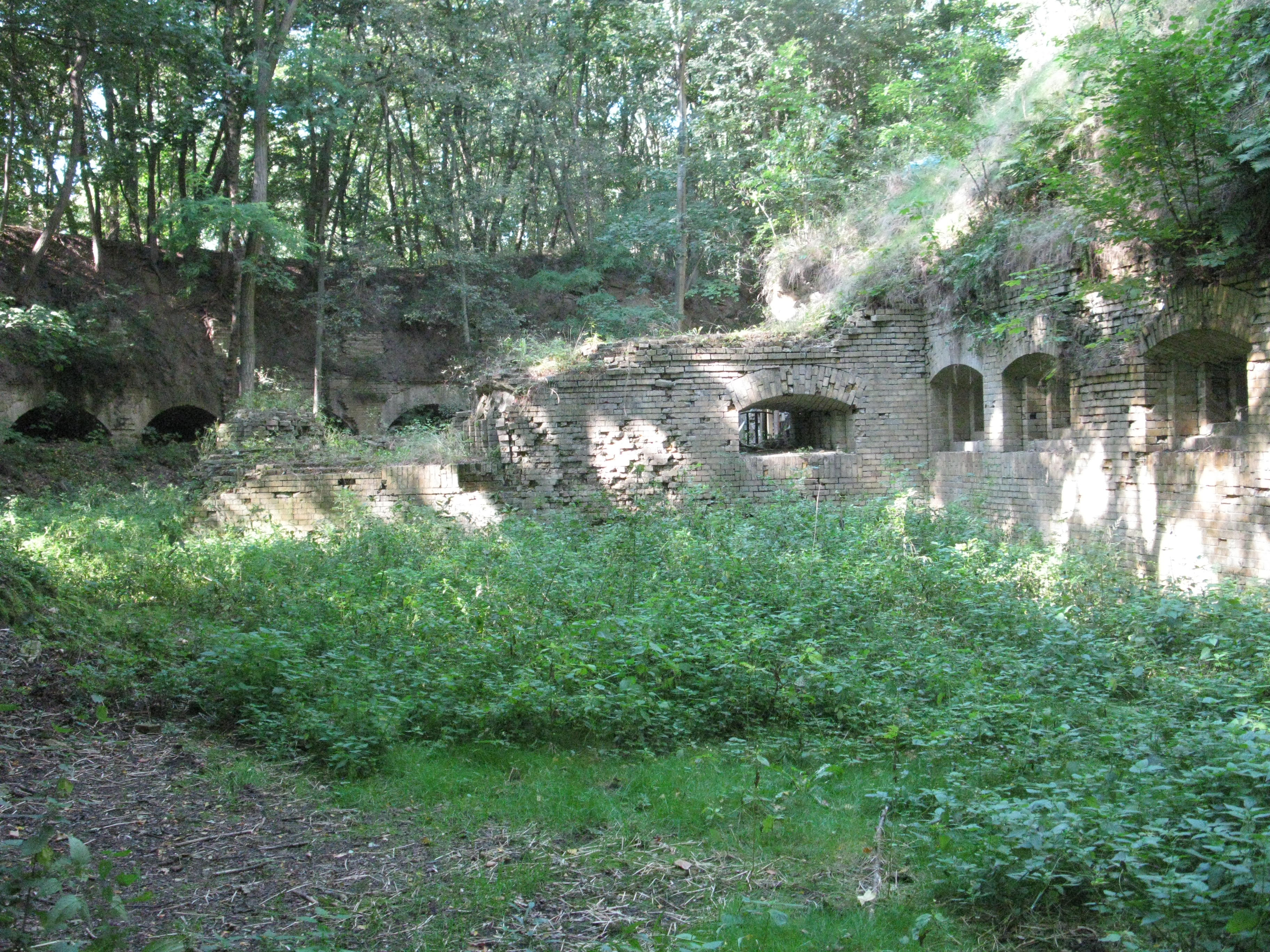 Fort Hahneberg - Spandau (Berlin)